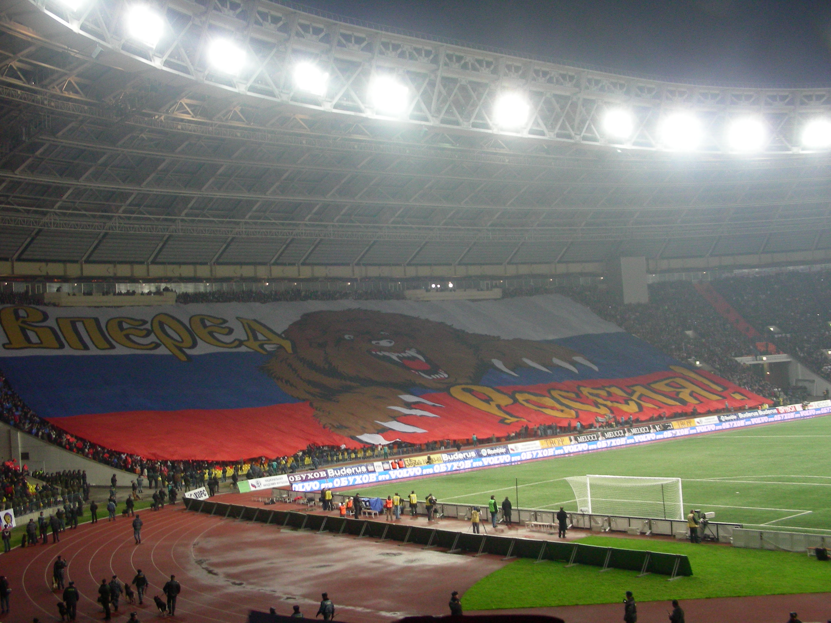 An enormous 130 by 80 m banner, considered to be the largest in the world, unveiled by Russian fans before the EURO 2008 qualifying game against England in Luzhniki, Moscow (England lost 2:1). The image depicts a ravenous bear, commonly associated with Russia in the West, and an inscription which reads 'Russia, forward!'